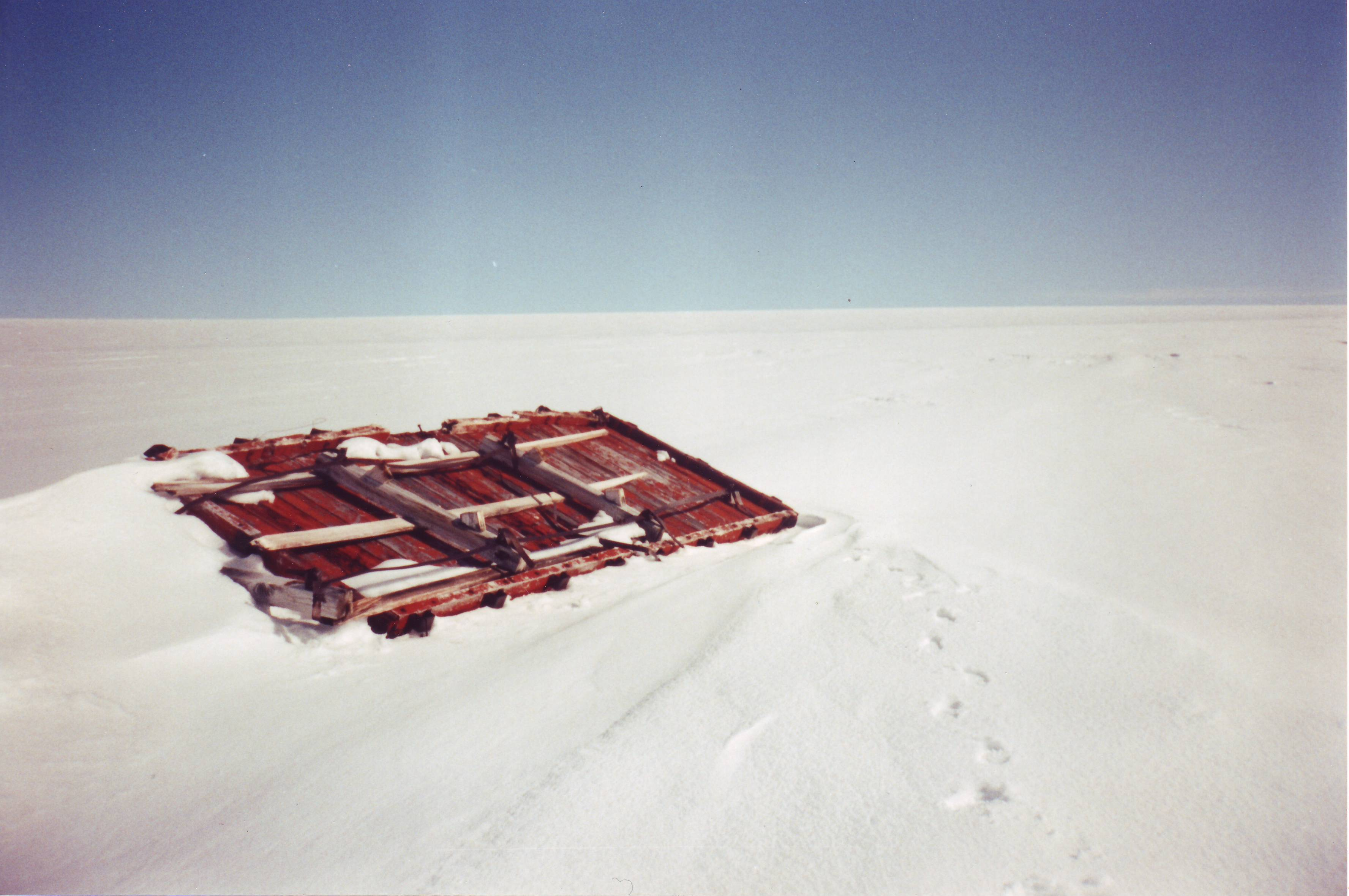 Abandoned sledge on the Greenland ice sheet 10 km from Camp Tuto near Thule Air Base